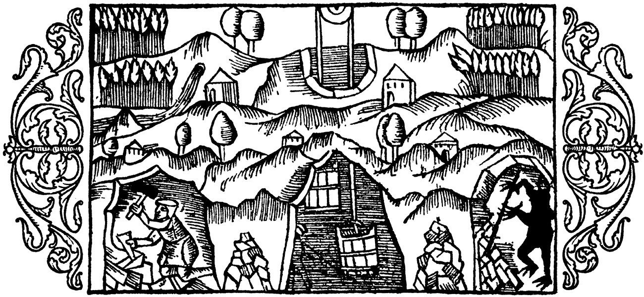 We see a mine where a miner is working to the left. His tools are a sledge and a wedge. In the middle ore is hoisted up to the ground level. To the right a rock troll is working with an iron bar. Over the mine a nice landscape with trees, houses, corn fields and a stream.